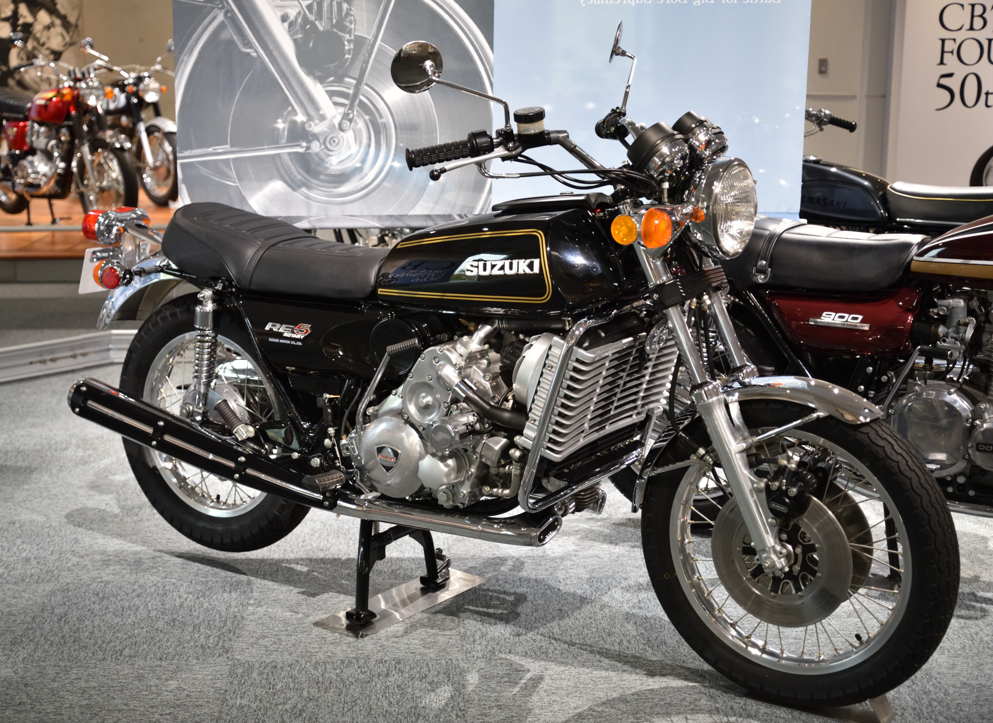 Suzuki RE-5 rotary engine (1974 according to Honda's webpage, but looks like a 1976 RE-5 model A)